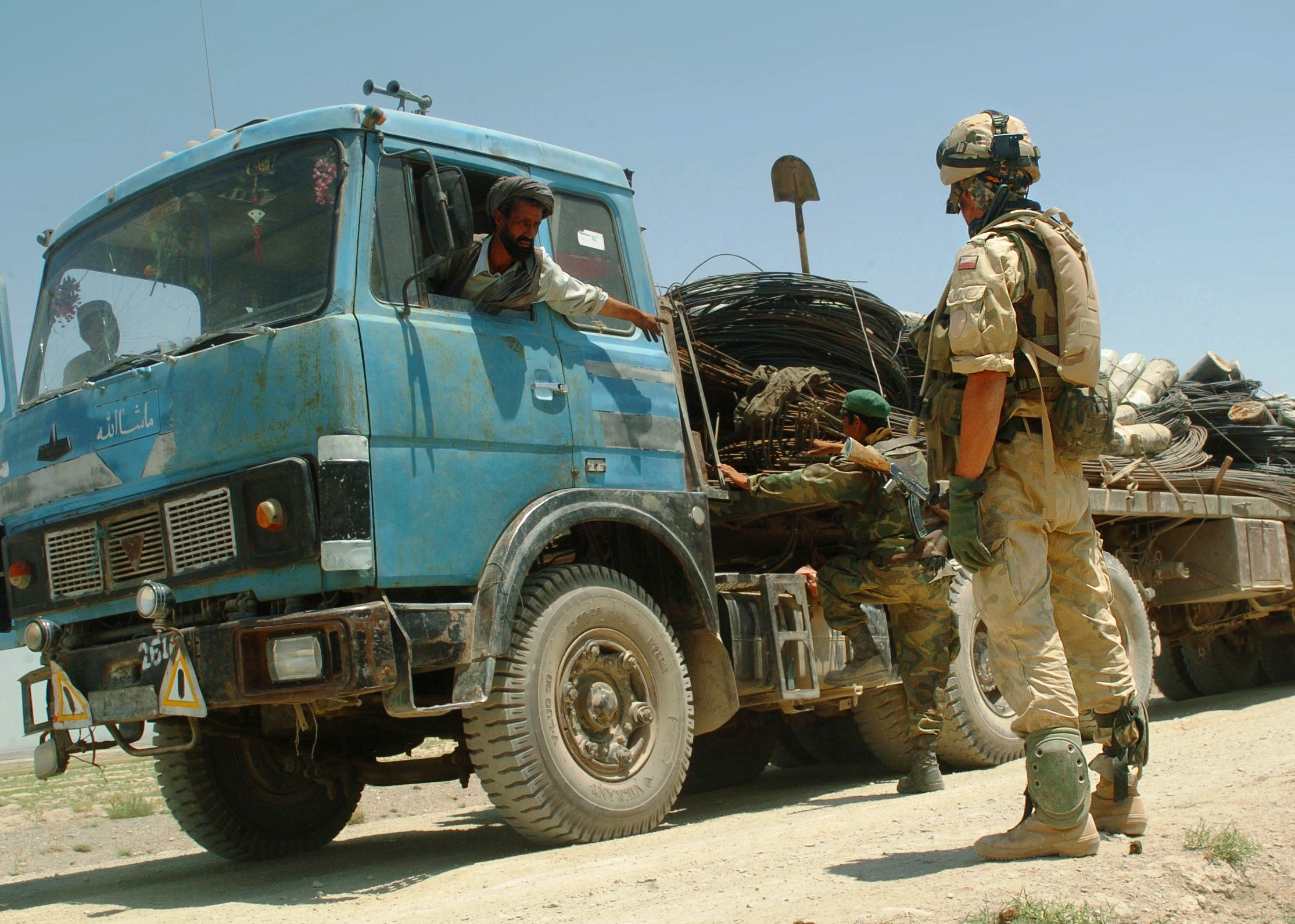 An Afghan soldier searches a vehicle while a Polish soldier stands nearby at a vehicle search checkpoint on a road in the Ghazni province of Afghanistan June 24, 2007.